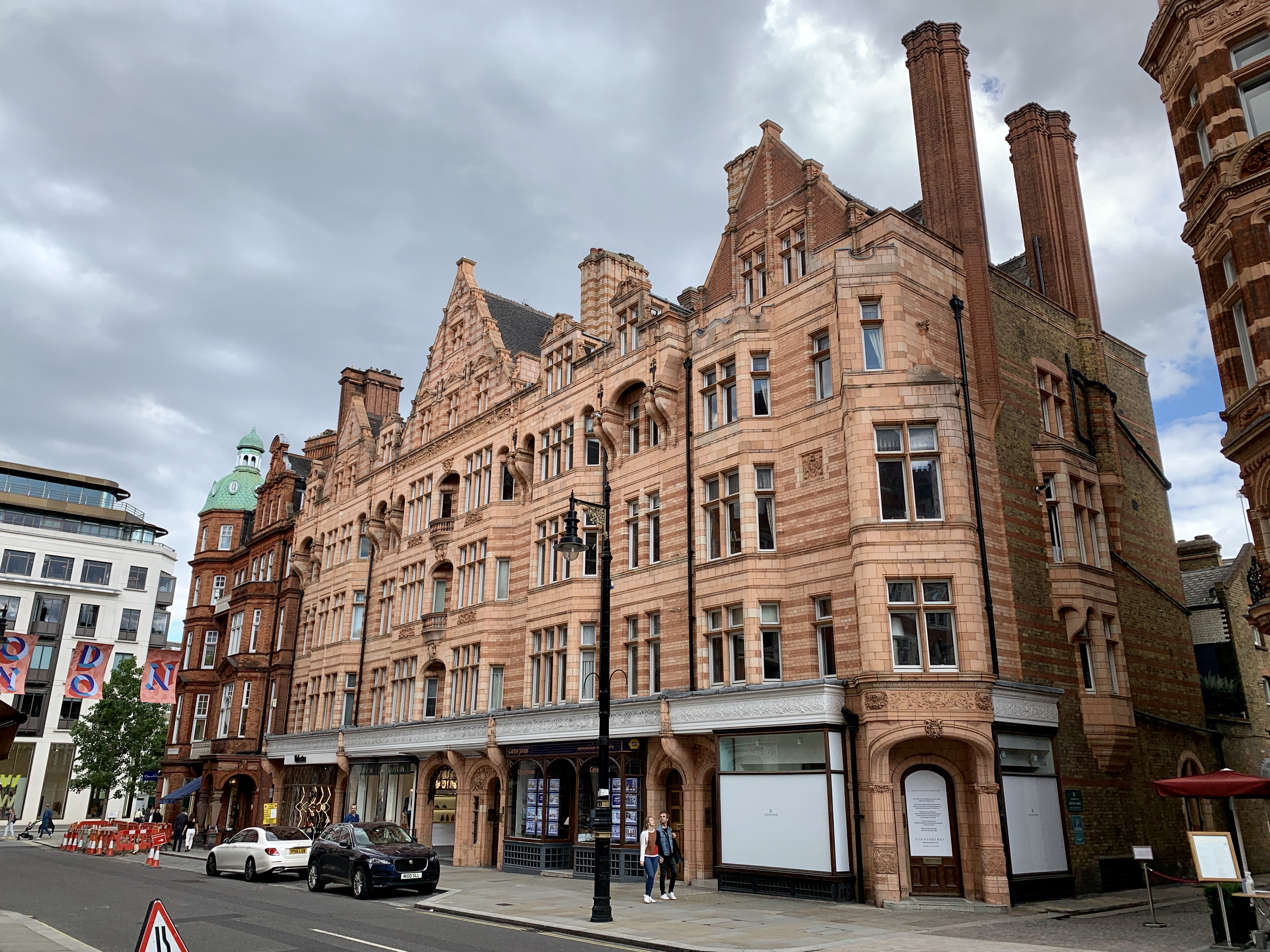 Terrace of shops and flats, 125-9 Mount Street, London 1886-87. Grade II listed. Listing number 1223669.